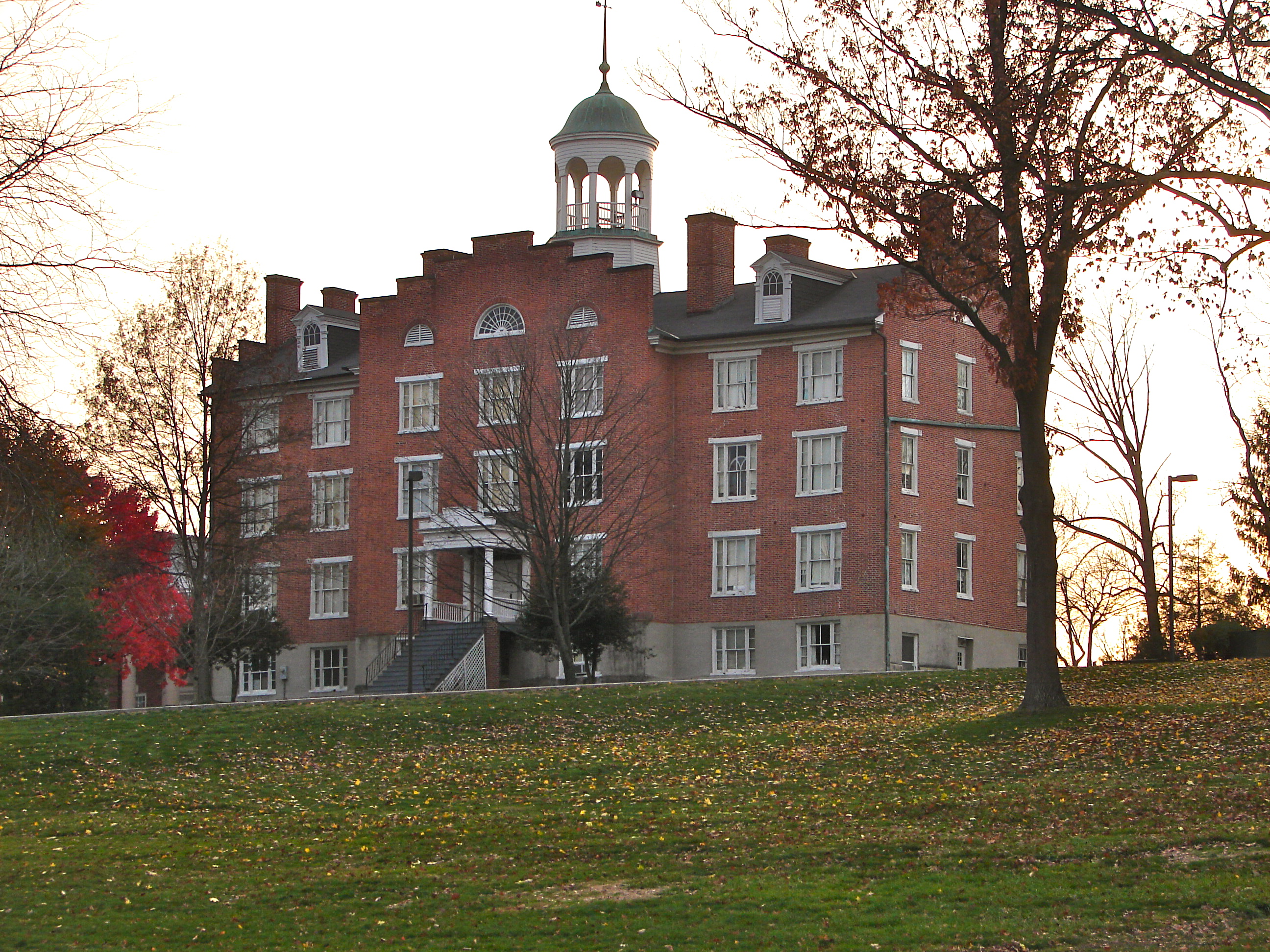 Lutheran Theological Seminary-Old Dorm on the NRHP since May 3, 1974. On Seminary Ridge, Lutheran Theological Seminary campus in Gettysburg, Pennsylvania. Also known as Schmucker Hall after the Seminary's first president Dr. Samuel Sim Schmucker and is home to the Adams County Historical Society. This building played an important role in the Battle of Gettysburg, in particular the cupola. Union Generals Buford and Reynolds used the cupola to view the battlefield and terrain and as a signal post on the first day of the battle. On the 2nd and 3rd days aides to Confederate General Lee did the same thing, and Union cannon focused on the building as a result. This building is near the center of the Confederate line on Seminary Ridge. The cupola was struck by lightning in 1914 and immediately replaced according to the original plans. Note that the "Old Dorm" at Gettysburg College maybe a mile north was also used as an observation and signaling point during the battle, but my reading of the NRHP nominations is that this building was the more important. Building was also used as a hospital for about 600 Union and Confederate soldiers during and after the battle.